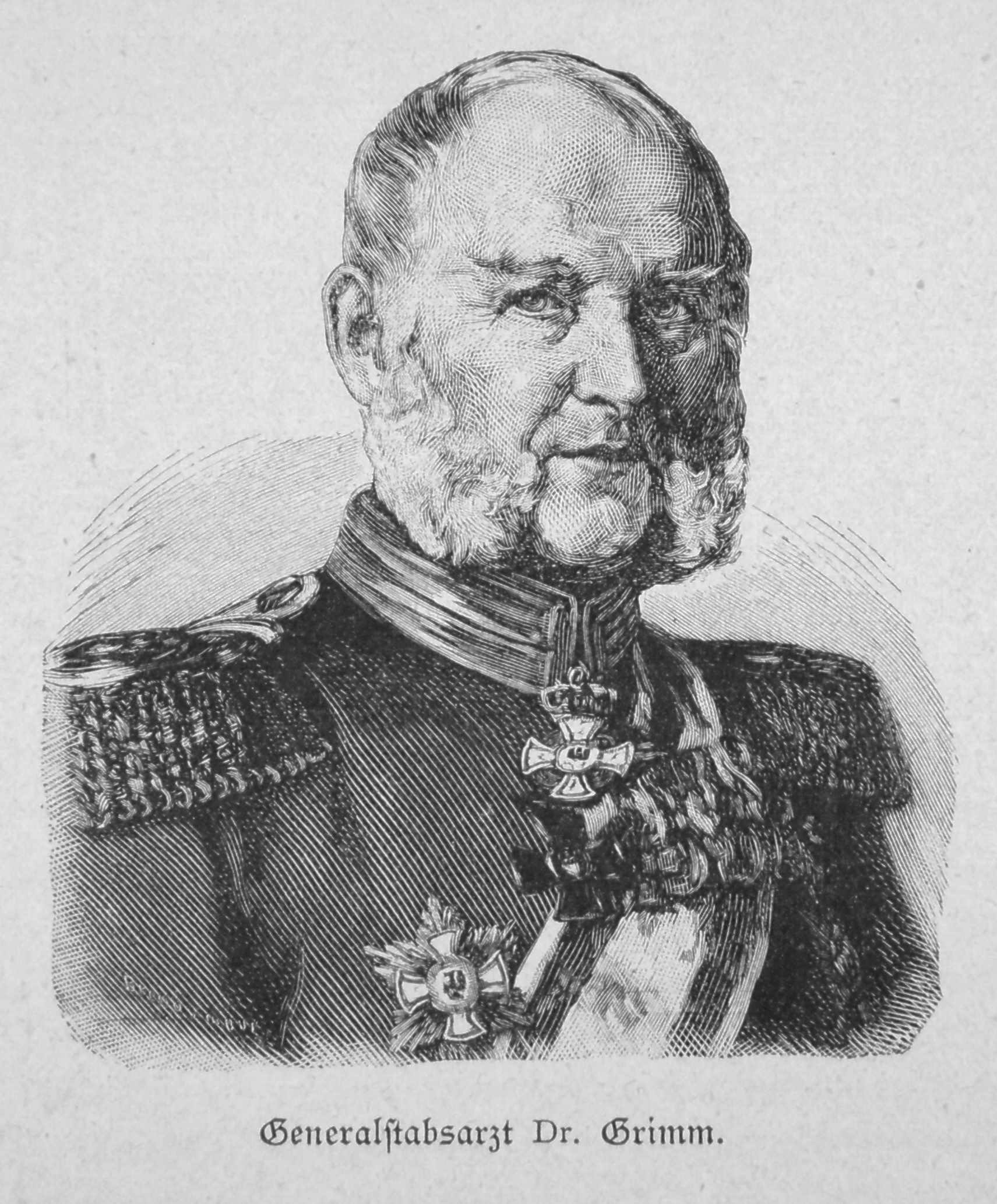 Generalstabsarzt Dr.H.G. Grimm was promoted to the personal rank of "Major general of the Medical Corps".